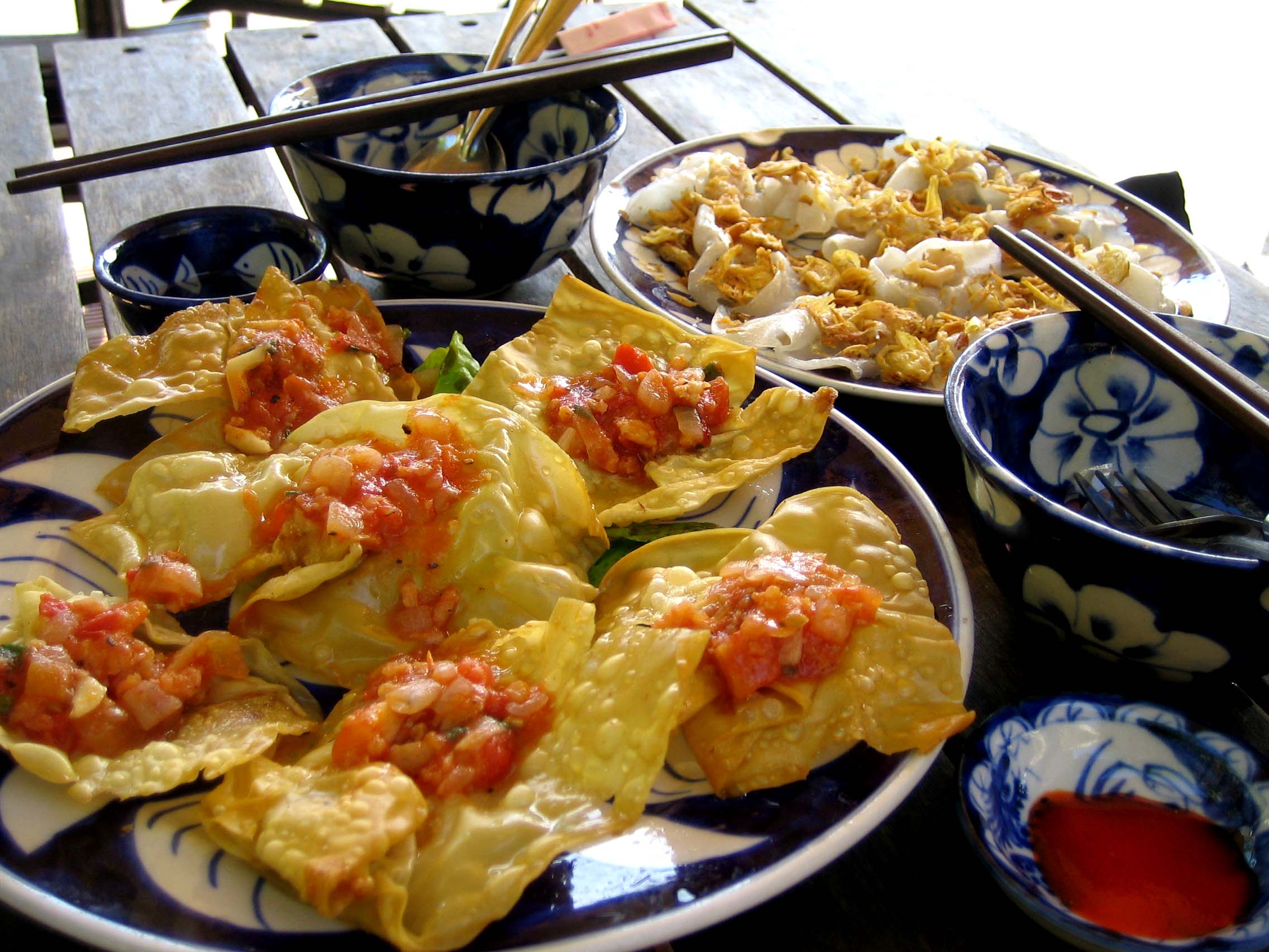 Shrimp toast served in Hoi An, Vietnam